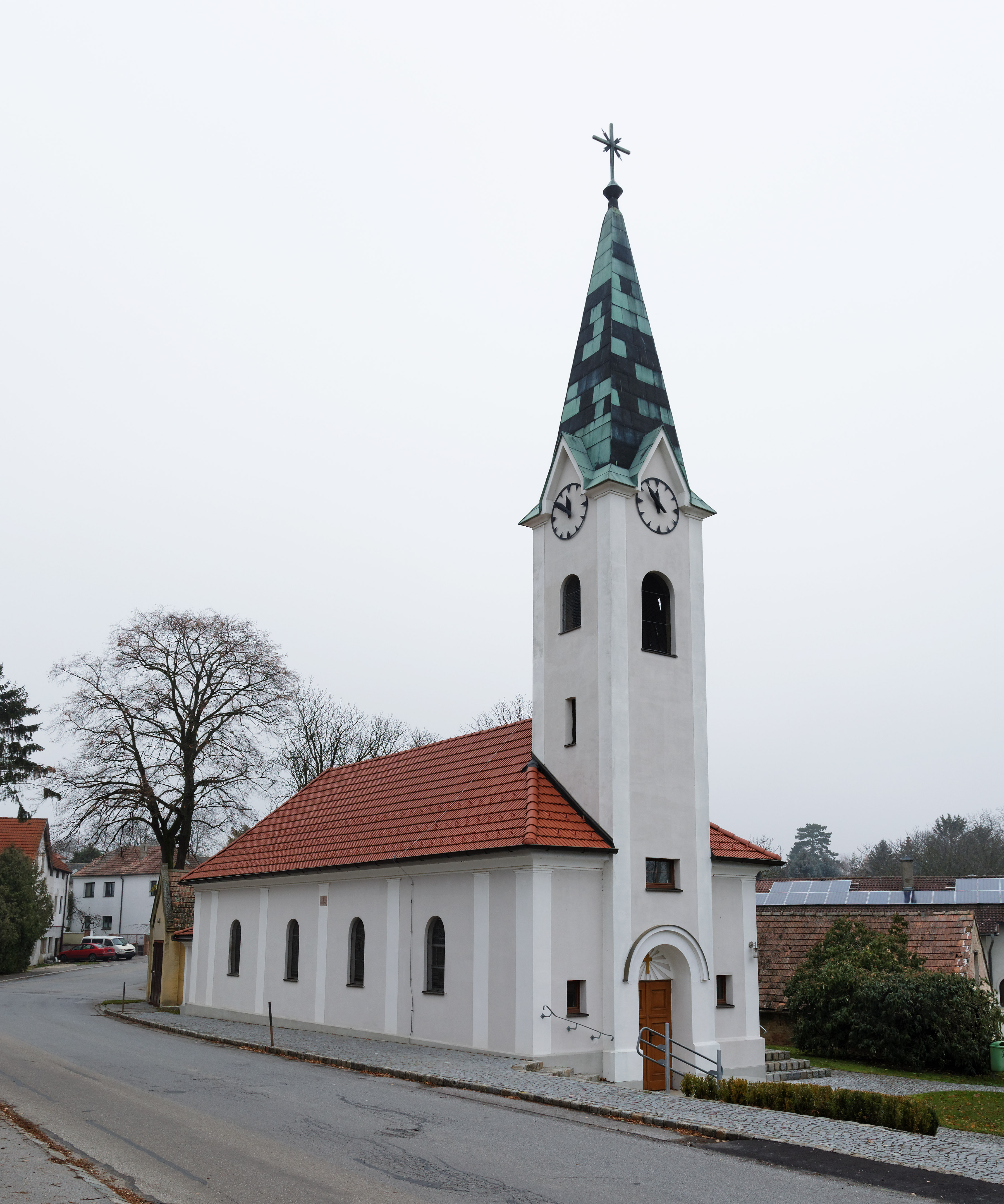 Catholic succursal church in Streifing, Municipality Kreuzstetten, Lower Austria, Austria